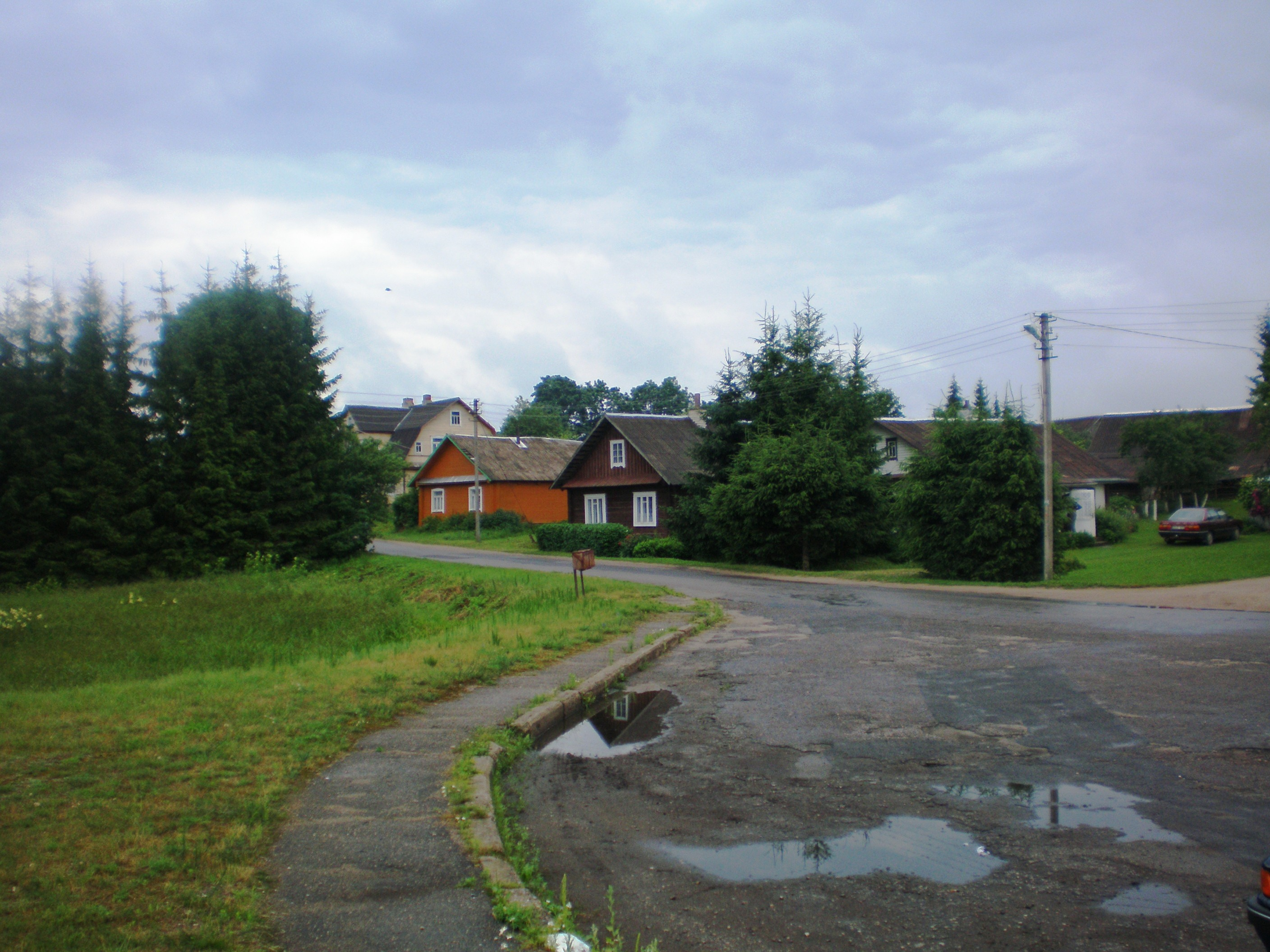 Kirdeikiai village, Utena district, Lithuania